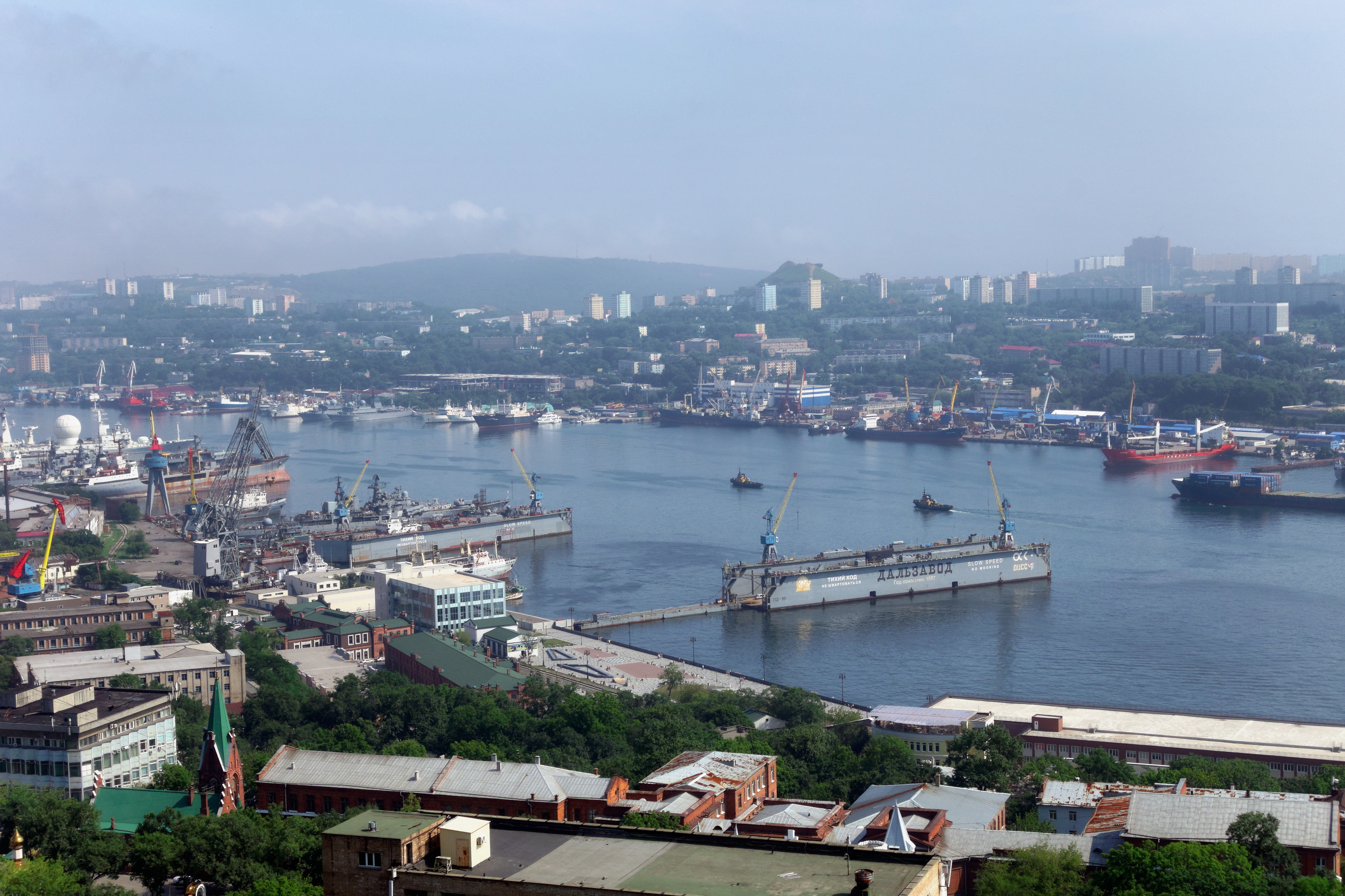 Vladivostok. Zolotoy Rog Bay